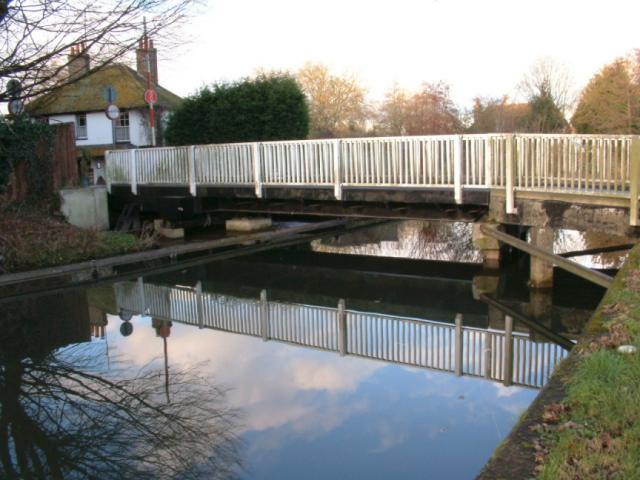 Sheffield Bottom The swing bridge over the Kennet and Avon canal at Sheffield Bottom, near Reading Berkshire